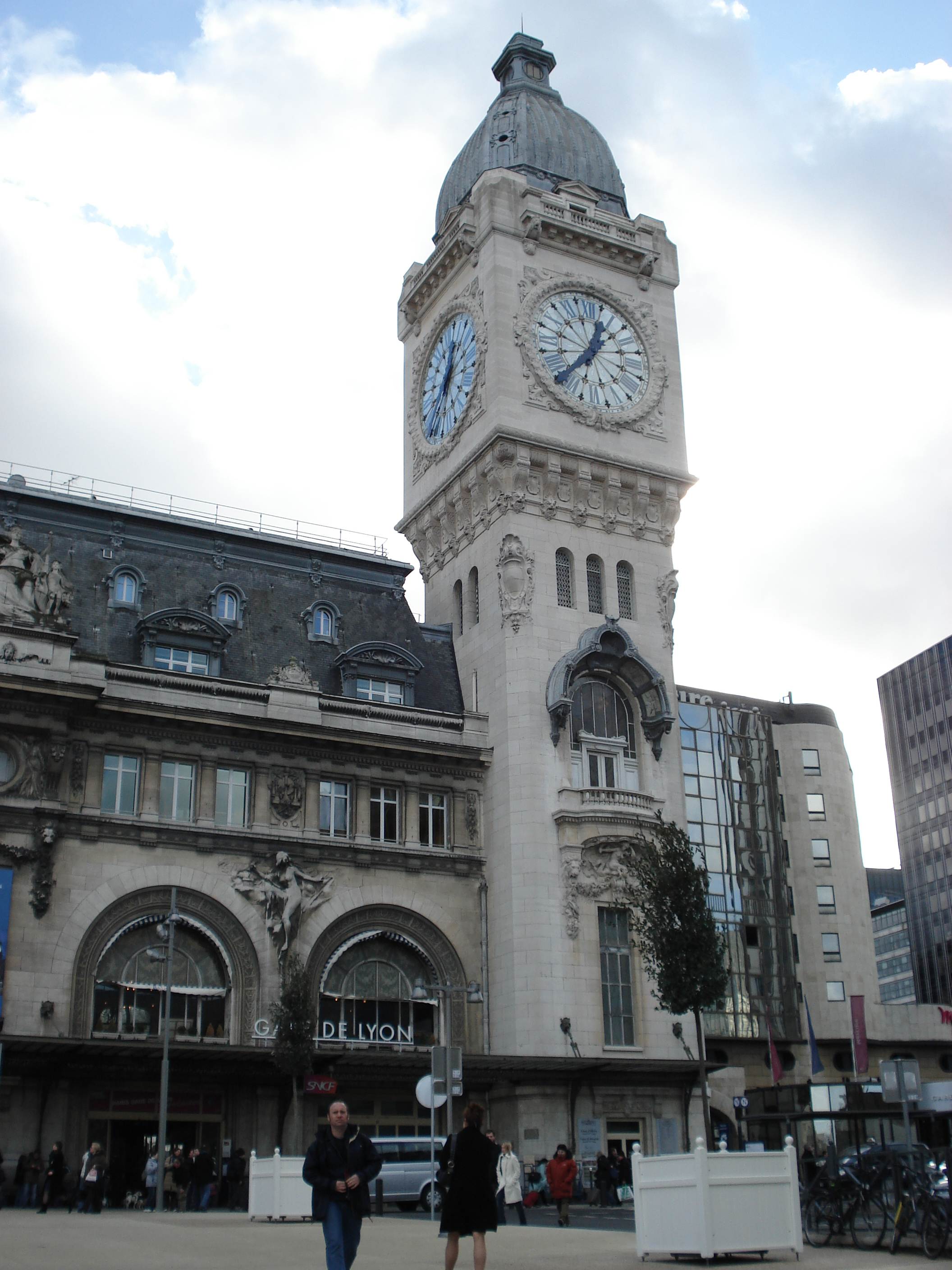 Gare de Lyon railway station in Paris, view of the clock tower.